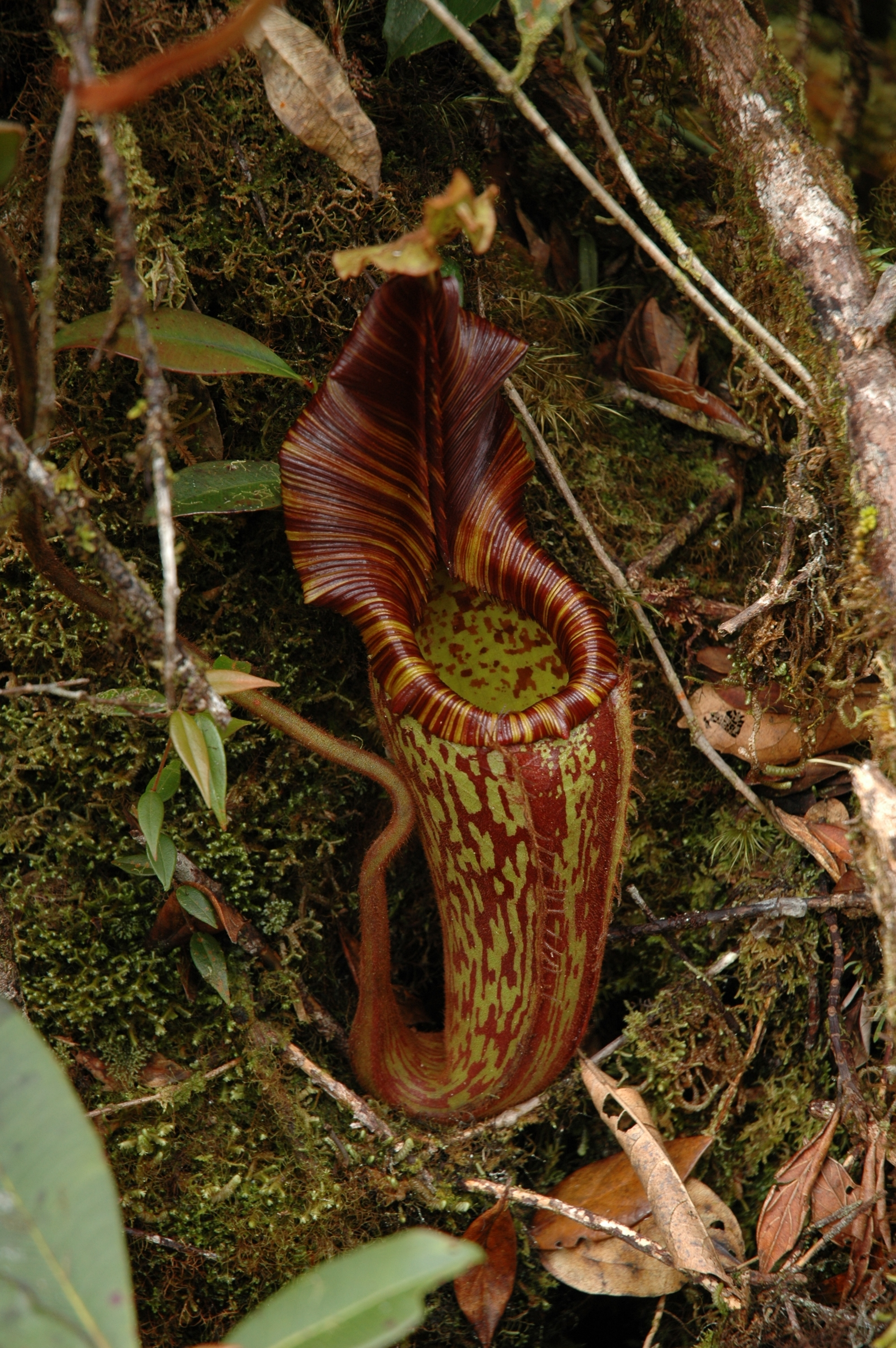 Nepenthes hurreliana Gunung Murud by Jeremiah Harris